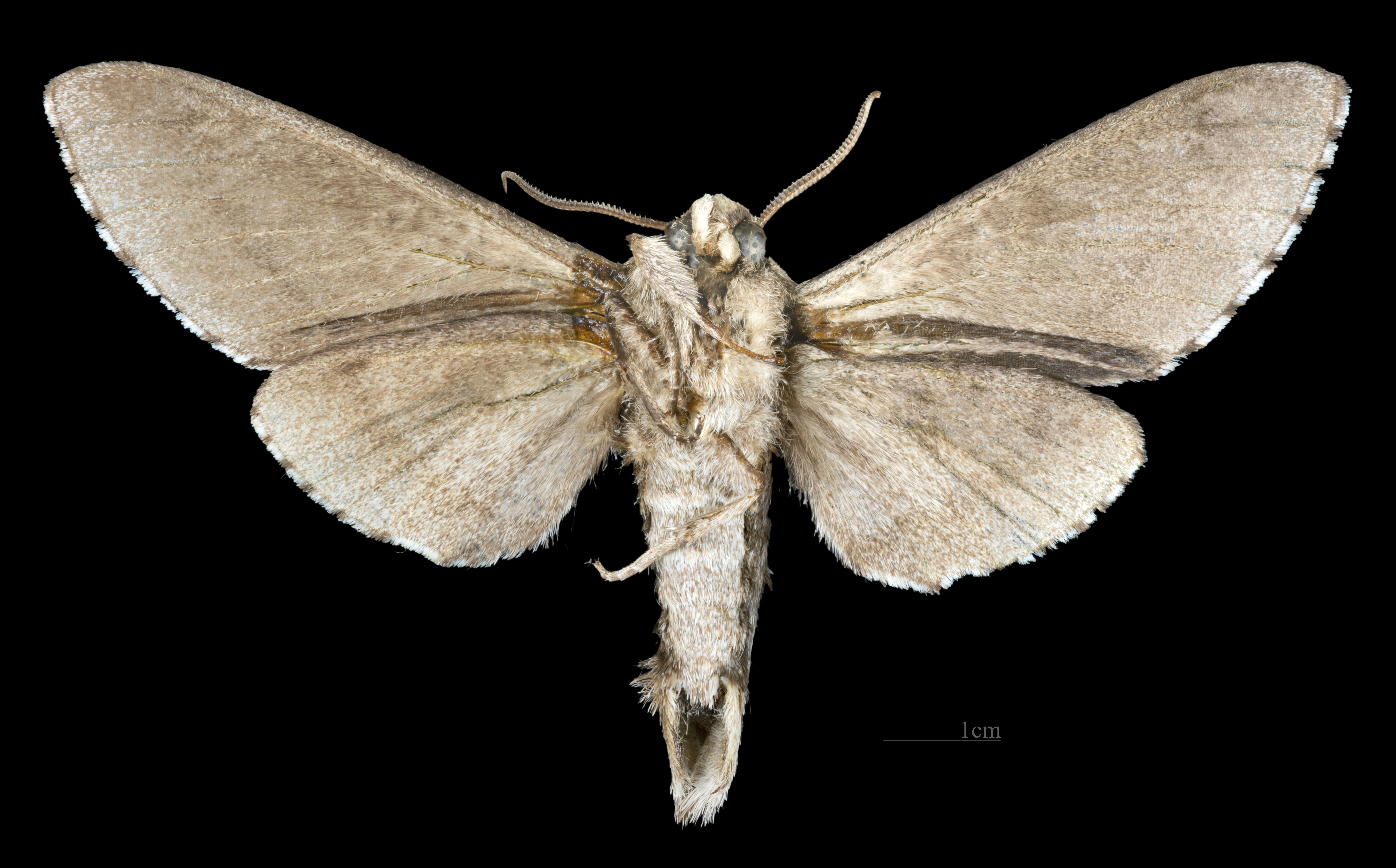 Sphingulus mus - △ Ventral side Collection of the Mathematician Laurent Schwartz